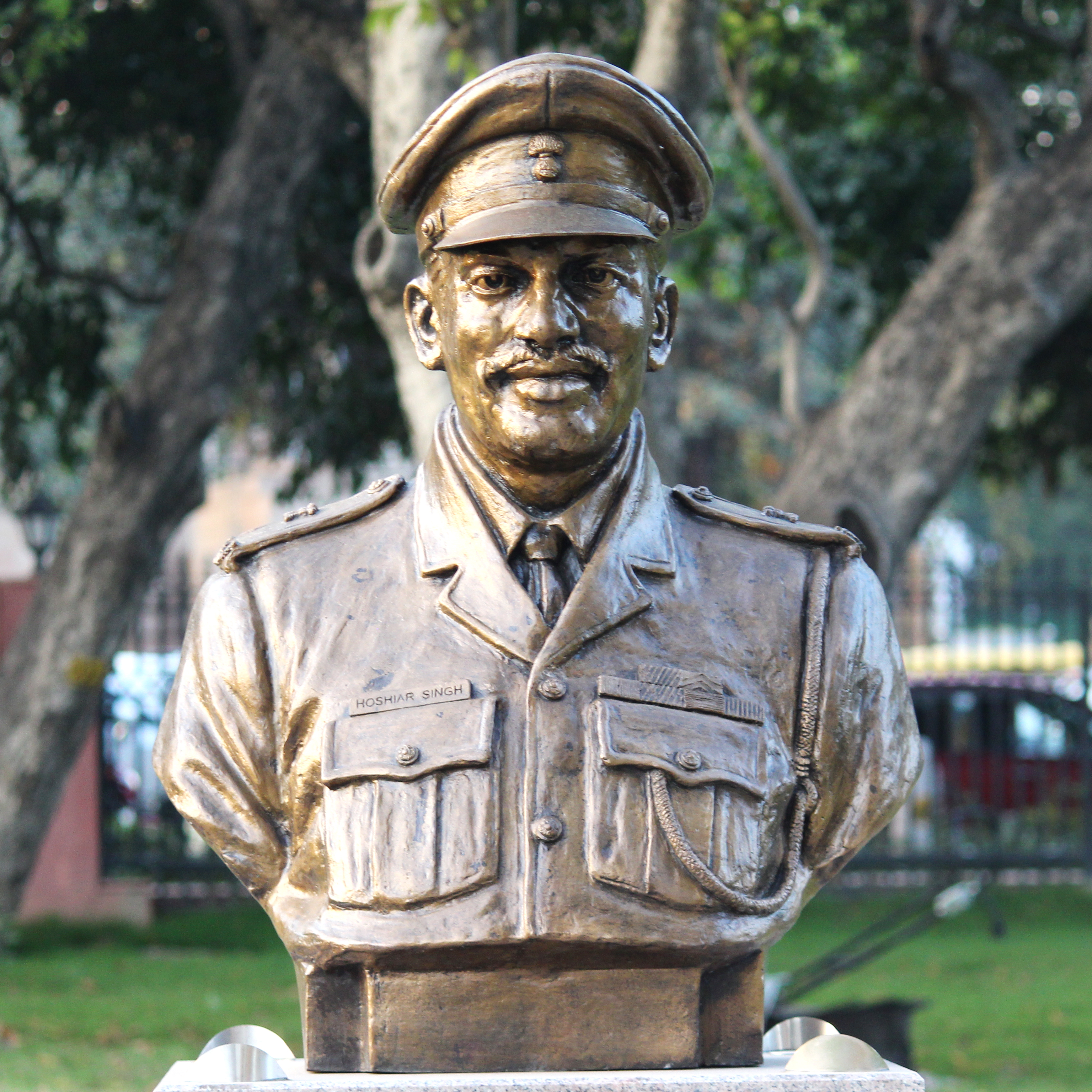 Major Hoshiar Singh's statue at Param Yodha Sthal (section for Param Vir Chakra recipients), National War Memorial, New Delhi.